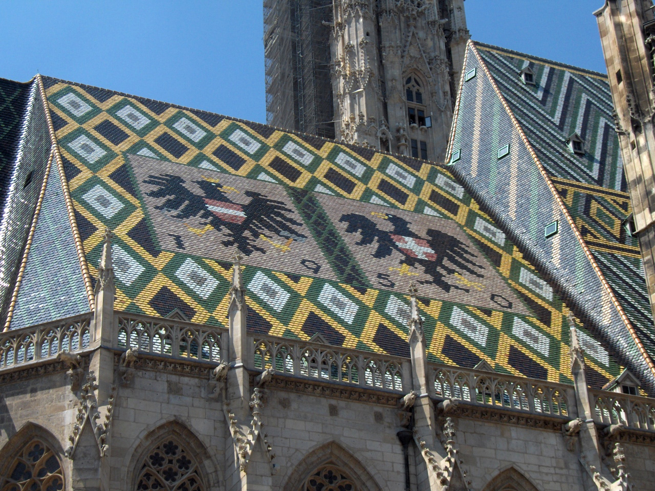 Roof of the Stephansdom in Vienna, Austria